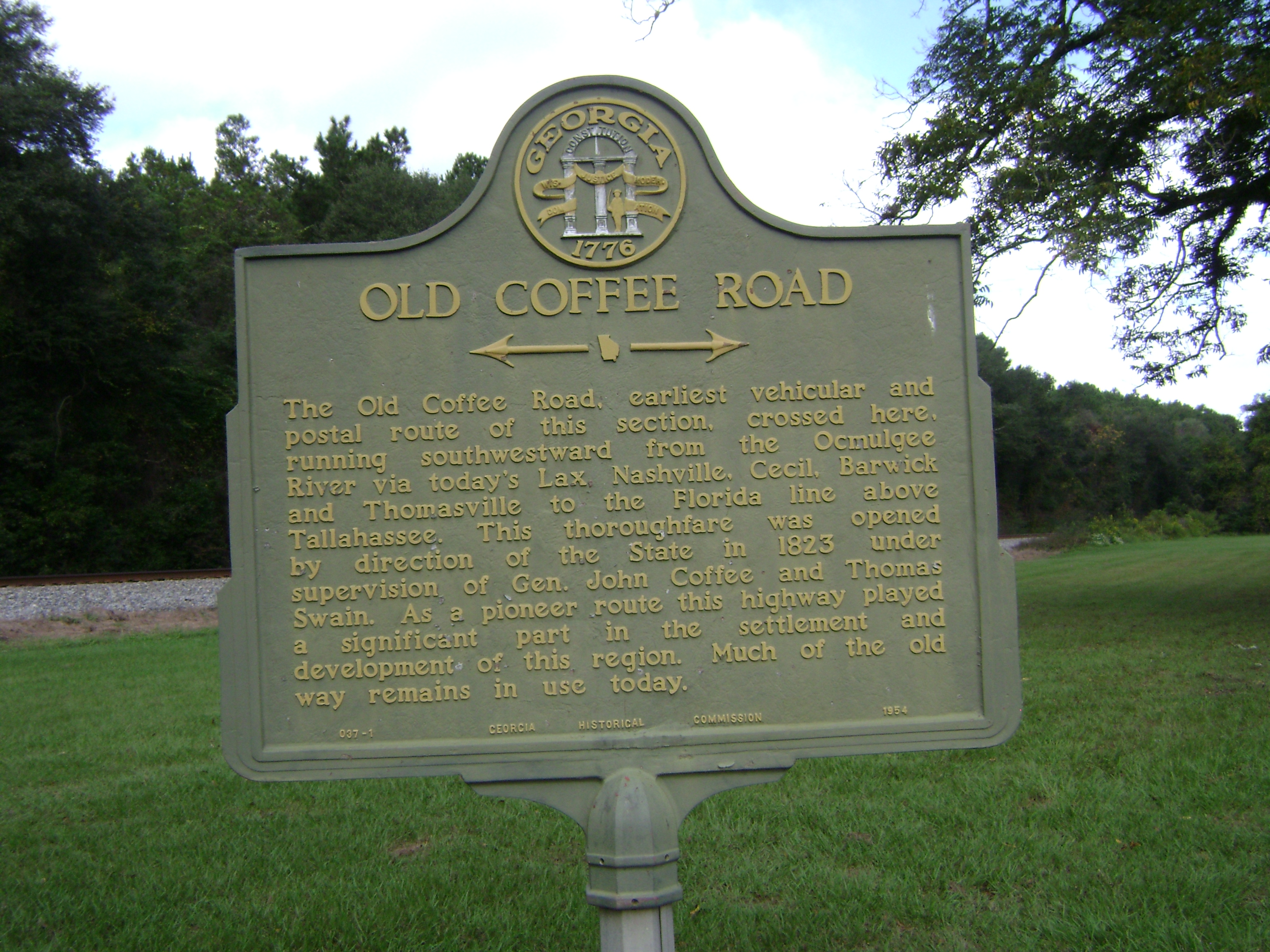 Old Coffee Rd Historical Marker just north of Cecil, Cook County, Georgia Historical marker reads: Old Coffee Road The Old Coffee Road, earliest vehicular and postal route of this section, crossed here, running southwestward from the Ocmulgee River via today's Lax, Nashville, Cecil, Barwick and Thomasville to the Florida line above Tallahassee. This thoroughfare was opened by direction of the State in 1823 under supervision of Gen. John Coffee and Thomas Swain. As a pioneer roaute this highway played a significant part in the settlement and development of the region. Much of the old way remains in use today. 037-1 Georgia Historical Commission 1954